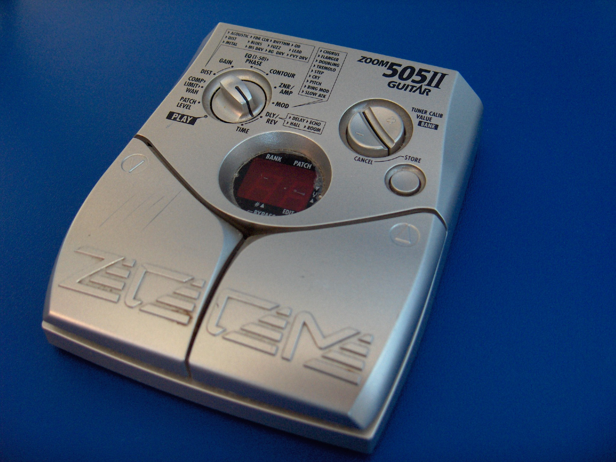 Zoom 505 multi-effect processor pedal